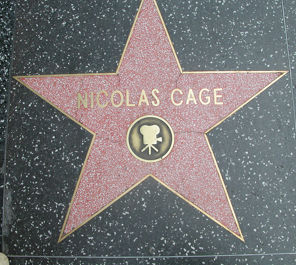 Nicolas Cage's star on the Hollywood Walk of Fame, Los Angeles (California)